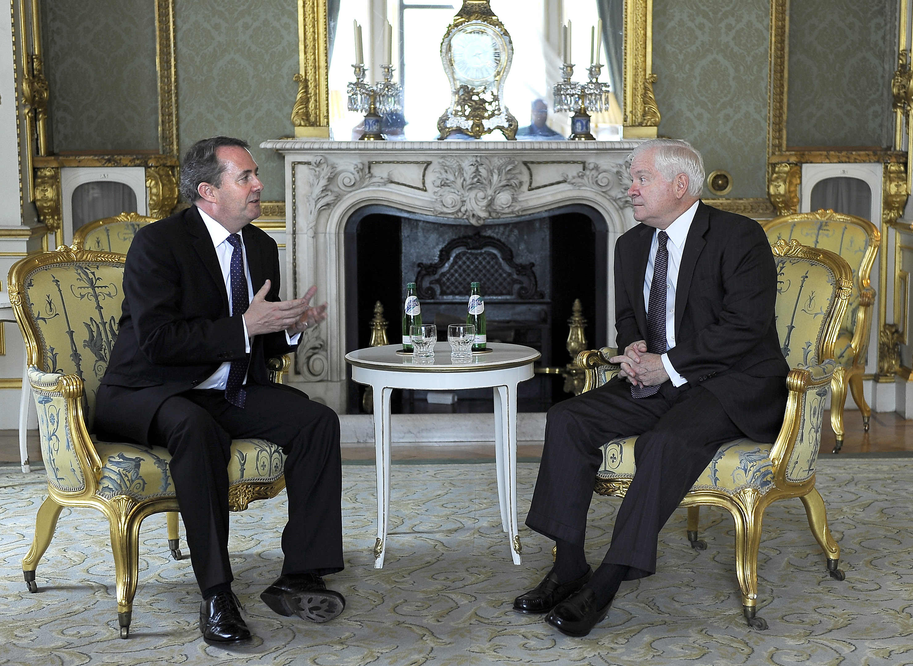 Secretary of Defense Robert M. Gates talks with British Defense Secretary Liam Fox in the Lancaster House in London on June 8, 2010.